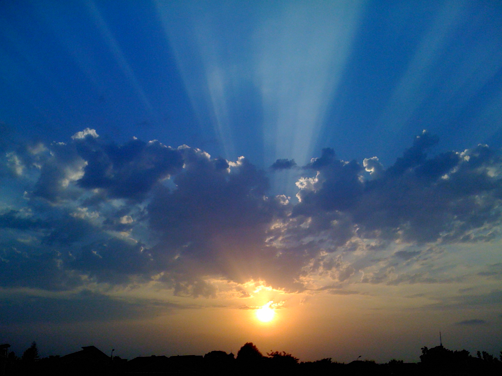 sunset